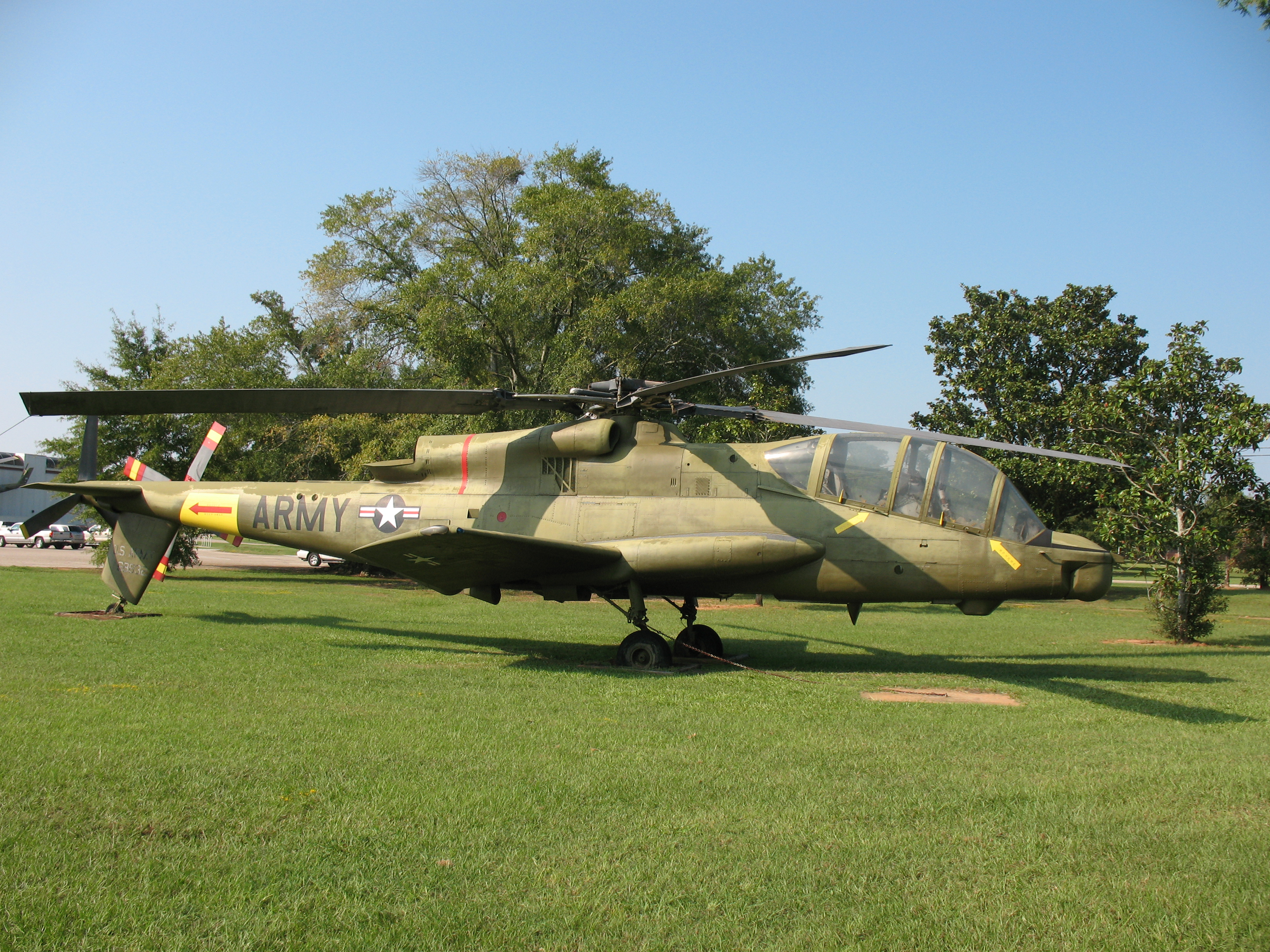 Design of the AH-56 "Cheyenne" began during the Vietnam War to replace the AH-1 Cobra, which was vulnerable to light antiaircraft fire and lacked agility. Because of cost overruns, delays, and changing Army requirements, the AH-56 never went into production. The AH-64 "Apache" eventually was chosen to fill the role for which the "Cheyenne" was developed. This is one of the ten prototypes built after Lockheed won the design for the Army's Advance Aerial Fire Support System (AAFSS).